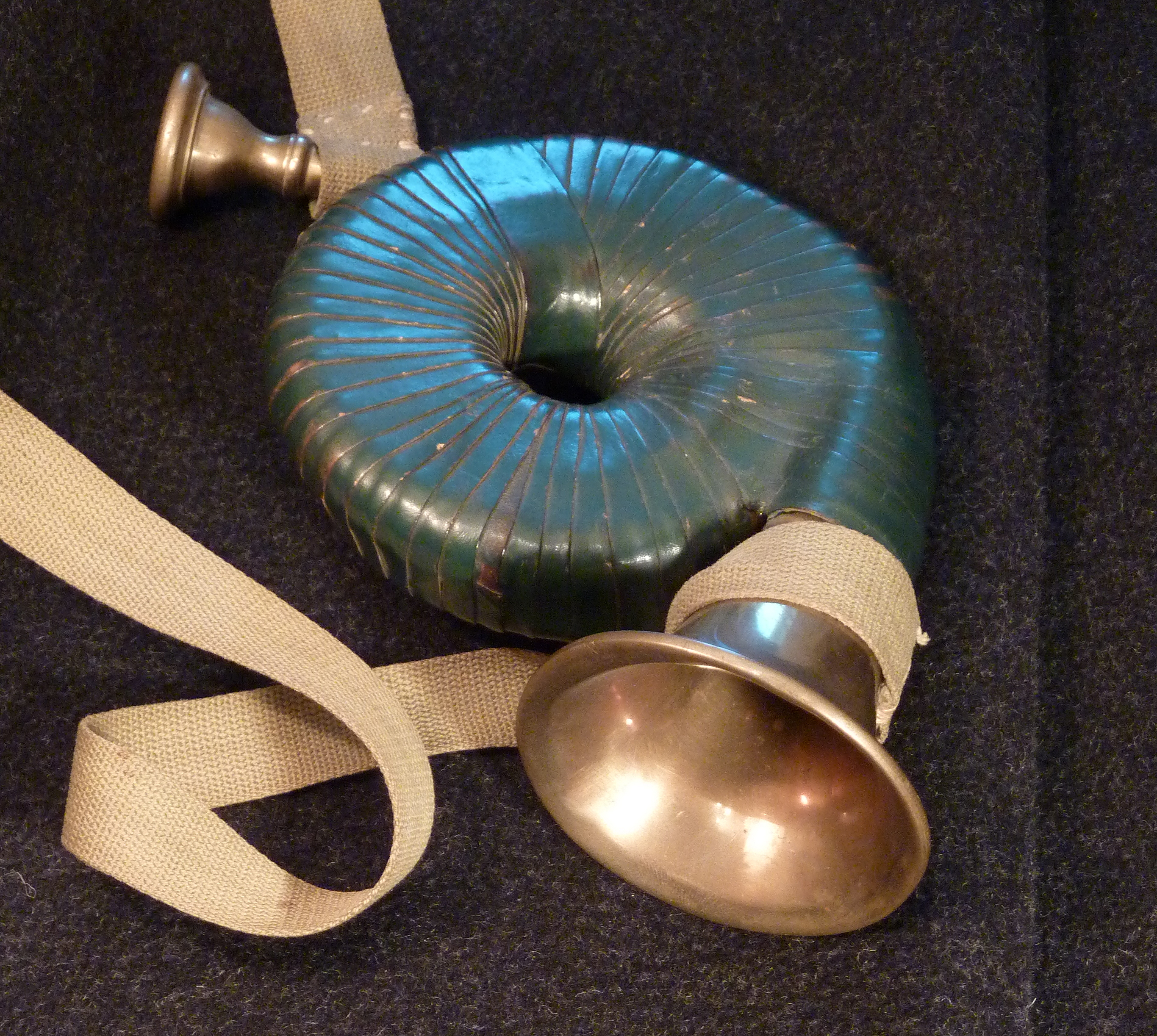 Pocket-sized hunting horn (natural horn, maybe a pless horn). Self-photographed in the year 2009 – with a dark grey loden cape as background.